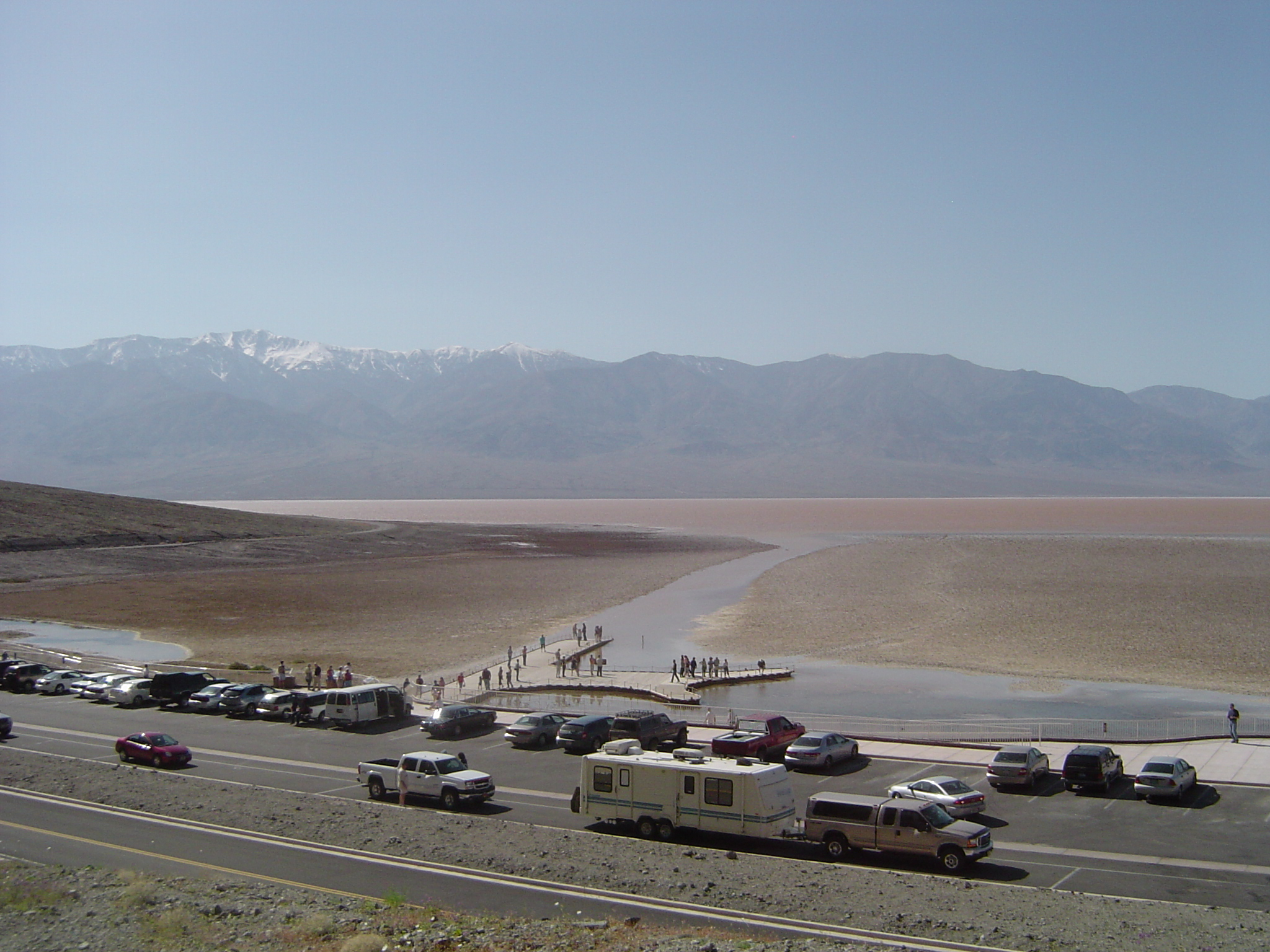 Tourist area around Badwater Basin, 282 feet below sea level, flooded by ephemeral Lake Badwater, Death Valley National Park, California. Panamint Range and Telescope Peak in the background.